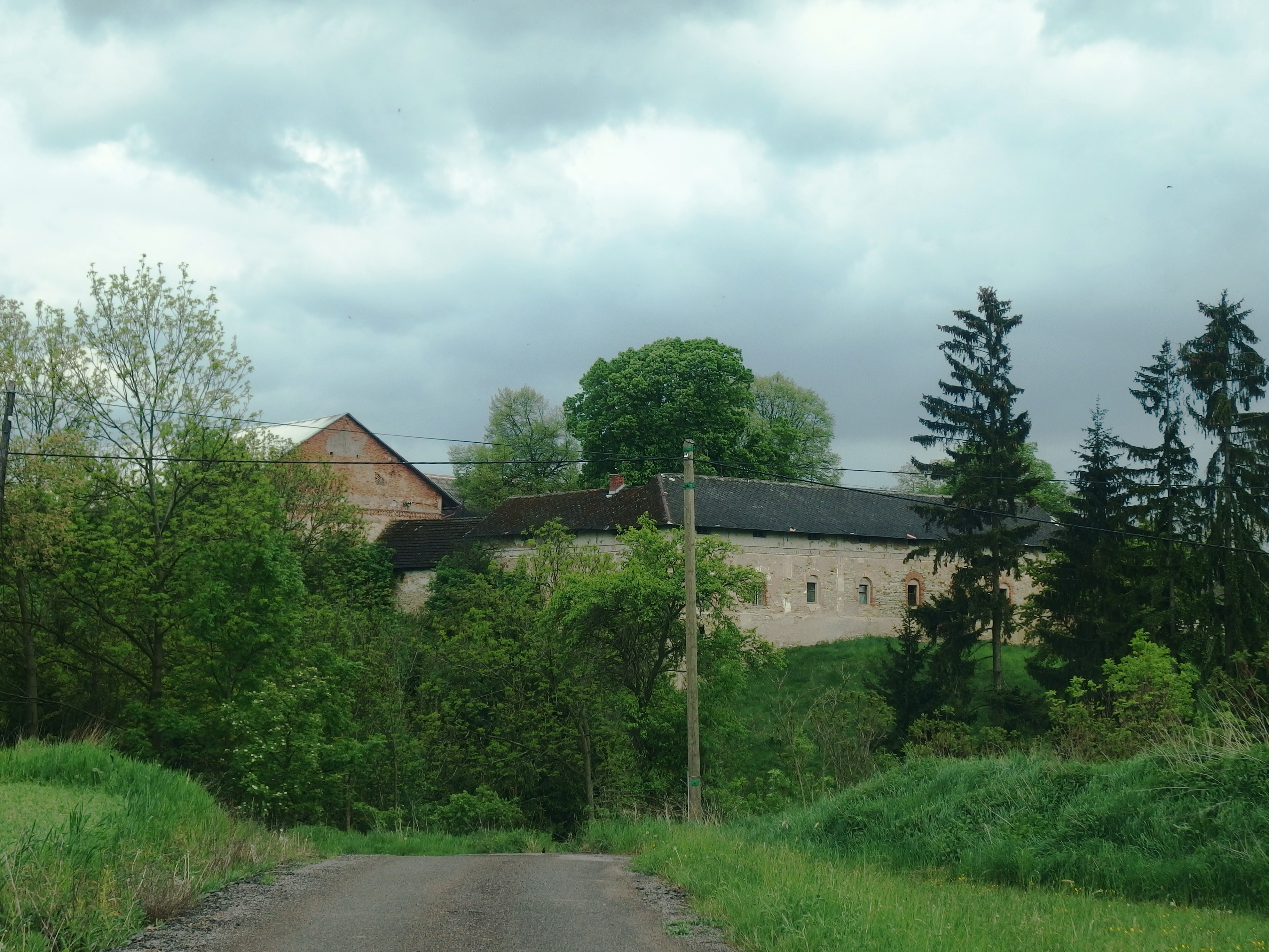 Podlesí, Ústí nad Orlicí District, Czech Republic, part Olešná.